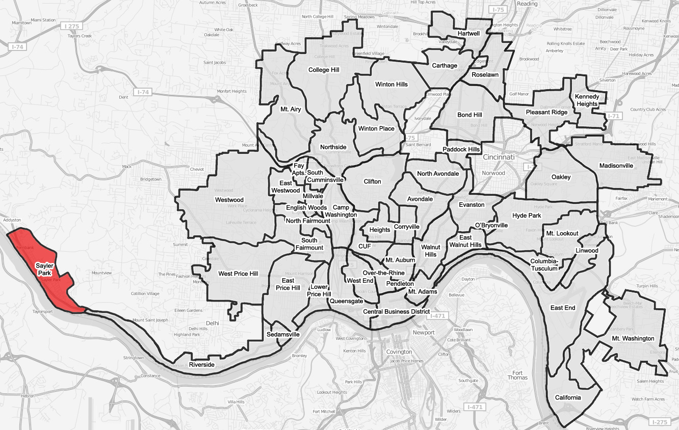 A map of the neighborhood of Sayler Park within Cincinnati, Ohio. Neighborhood lines are based on information from This street map is derived from a free map.